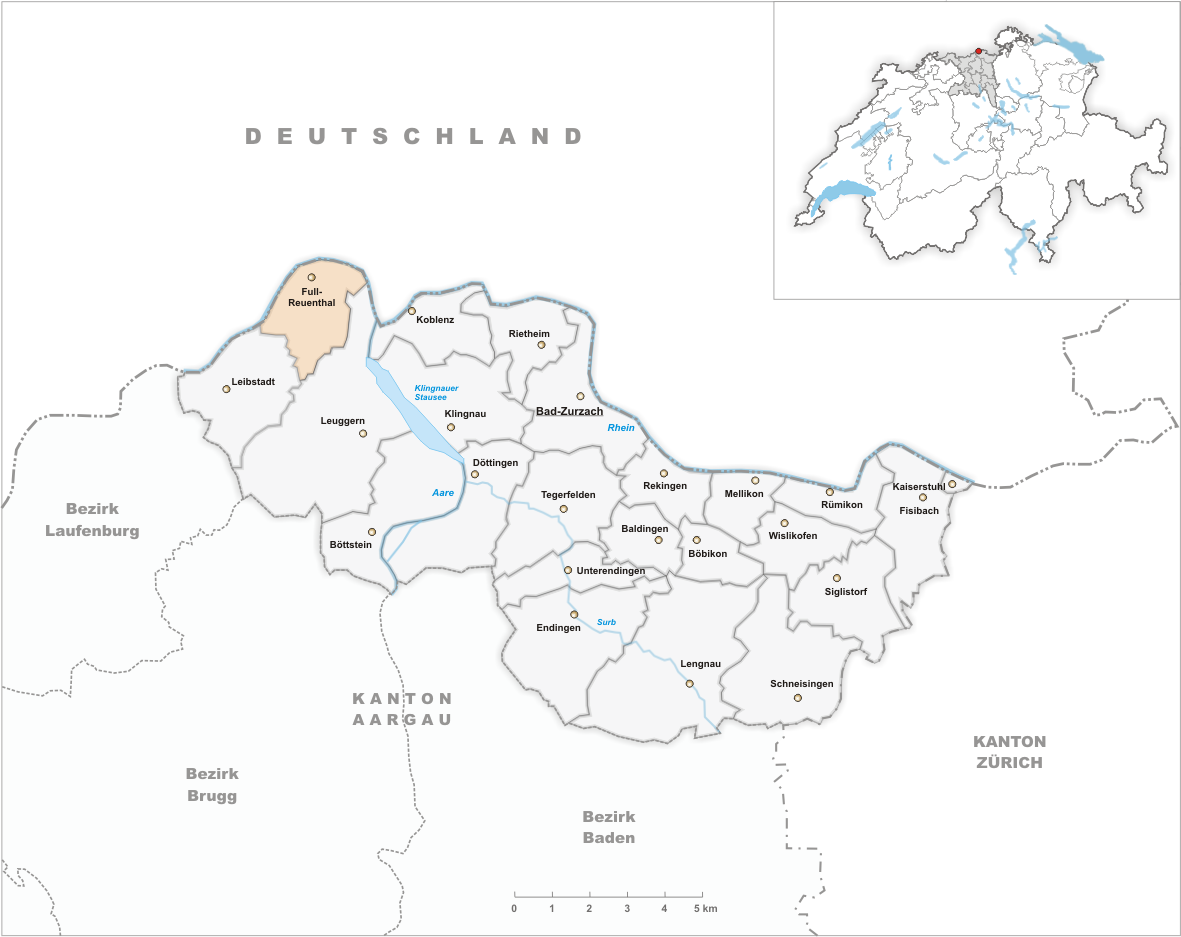 Municipality Full-Reuenthal